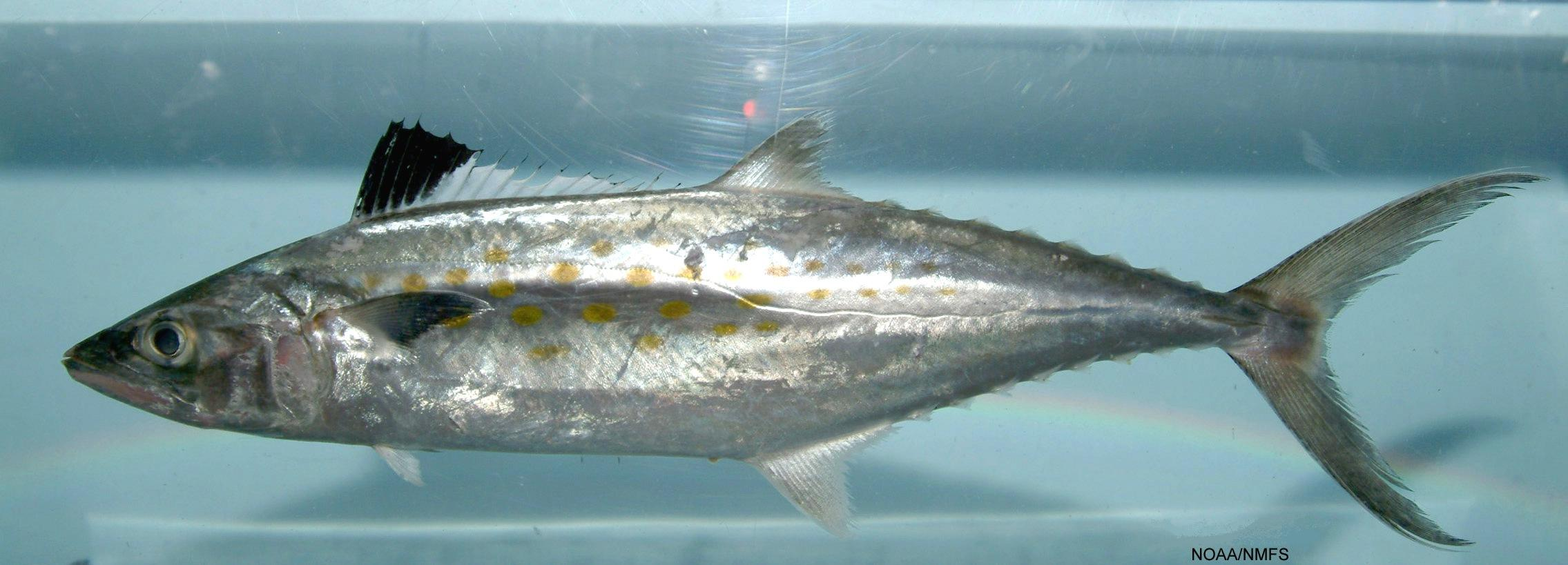 Spanish mackerely ( Scomberomorus maculatus ). Gulf of Mexico.